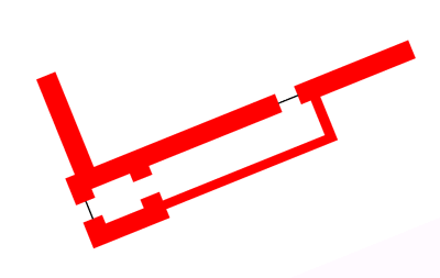 A detail of 14-th century Russian fortress or kremlin plan was a corridor, called zakhab (Russian: захаб), connecting the external gates in the tower to gates in the fortress wall itself. This drawing is based on 1387 plans of Porkhov fortress, with two zakhabs in corner towers. One was outside the main wall, as shown, one inside.